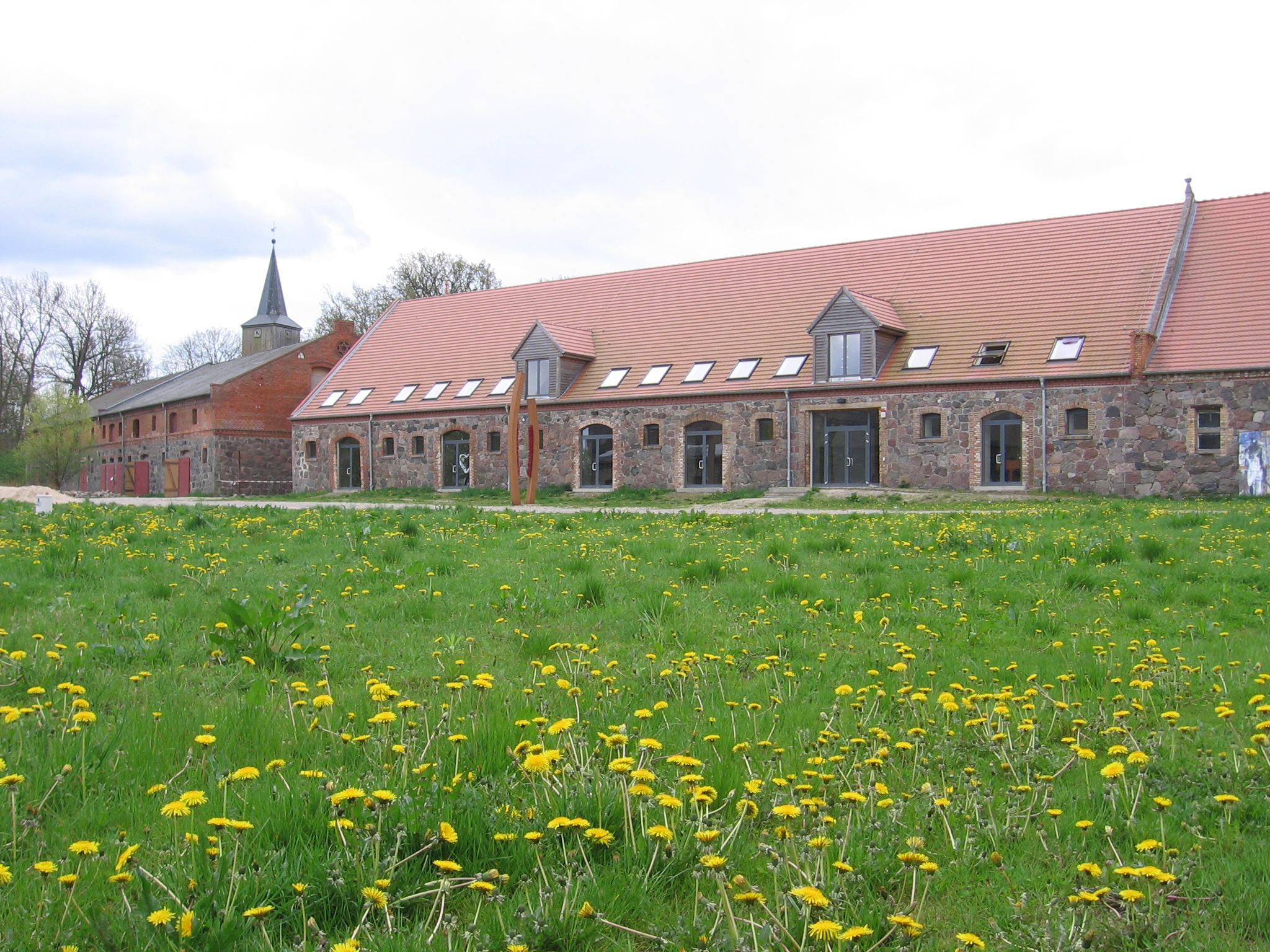 German-Polish Center in the former bull staple at Schloss Bröllin.